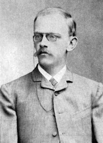 German mathematician David Hilbert, 1886